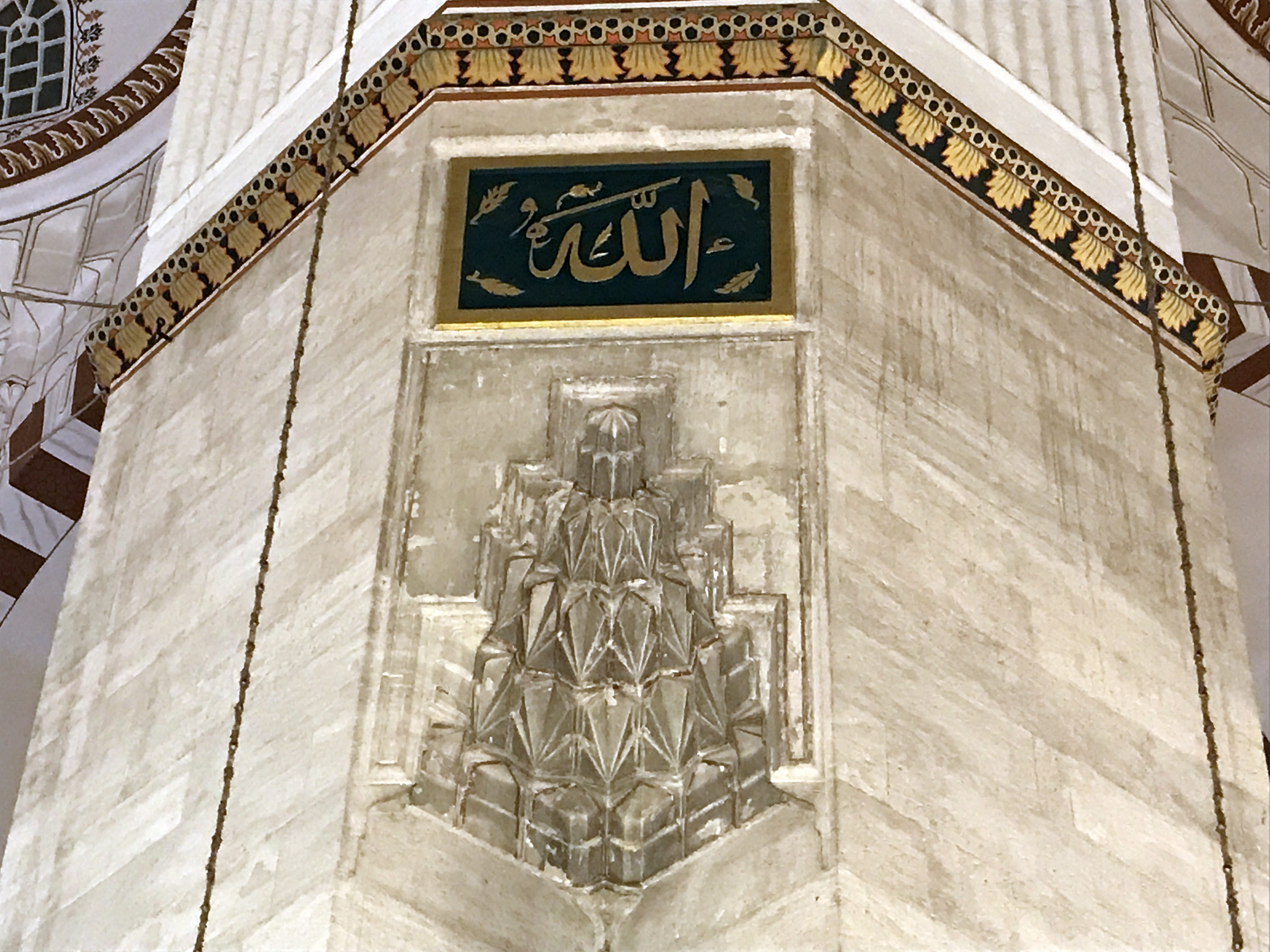 Şehzade Mosque, a 16th-century Ottoman imperial mosque located in the district of Fatih, on the third hill of Istanbul, Turkey. It was commissioned by Suleiman the Magnificent as a memorial to his favorite son Şehzade Mehmed who died in 1543. It is sometimes referred to as the "Prince's Mosque" in English. Suleiman is said to have personally mourned the death of Mehmed for forty days at his temporary tomb in Istanbul, the site upon which the imperial architect Mimar Sinan would construct a lavish mausoleum to Mehmed as one part of a larger mosque complex dedicated to the princely heir. The complex was Sinan's first important imperial commission and ultimately one of his most ambitious architectural works, even though it was designed early in his long career.